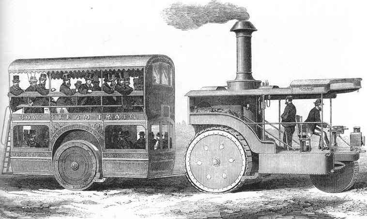 Steam traction engine with passenger trailer by Robert William Thomson, c. 1869.